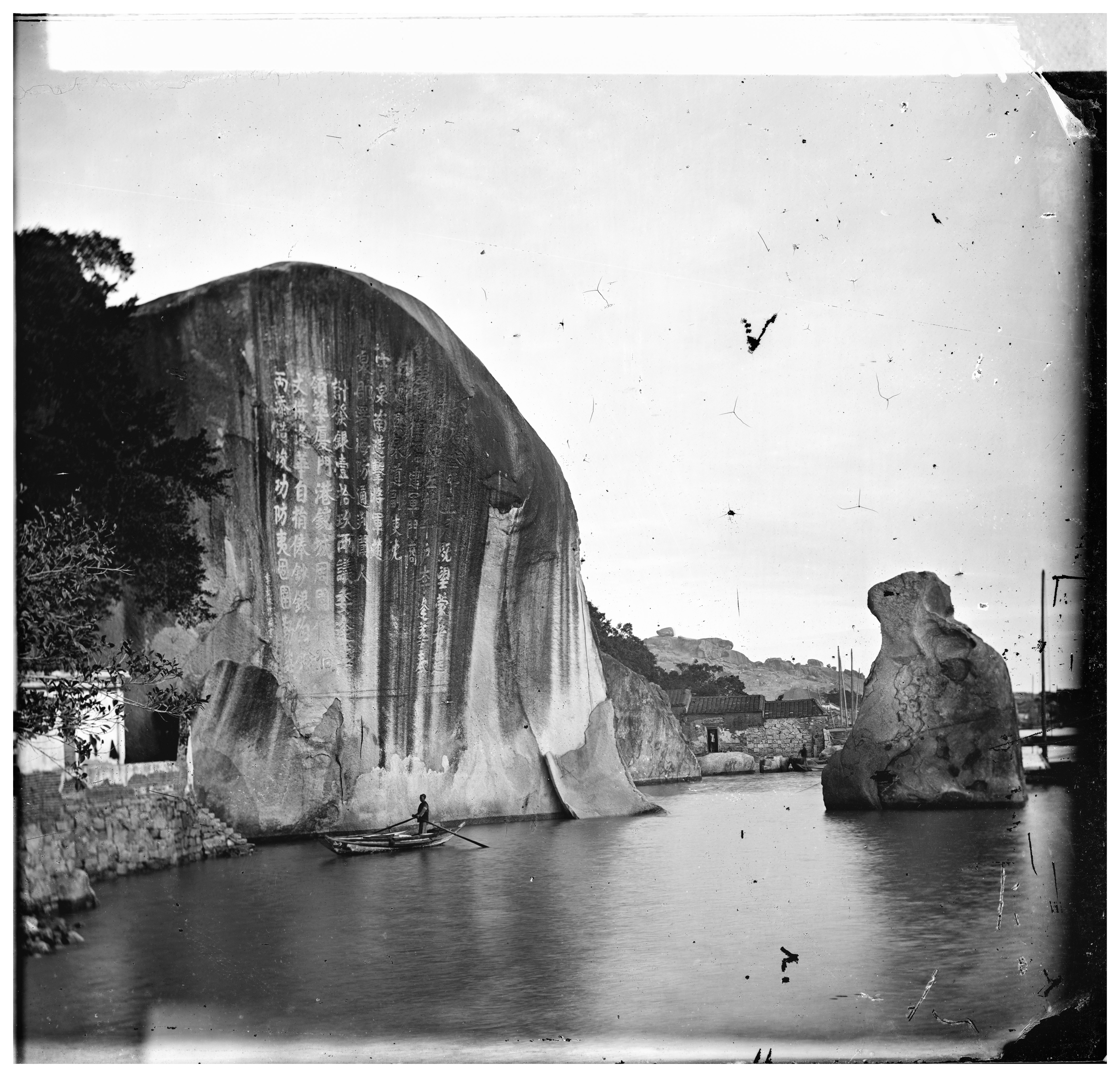 Amoy (Xiamen), Fukien province, China: Riguang Rock. Photograph by John Thomson, 1870/1871. Iconographic Collections Keywords: J. Thomson